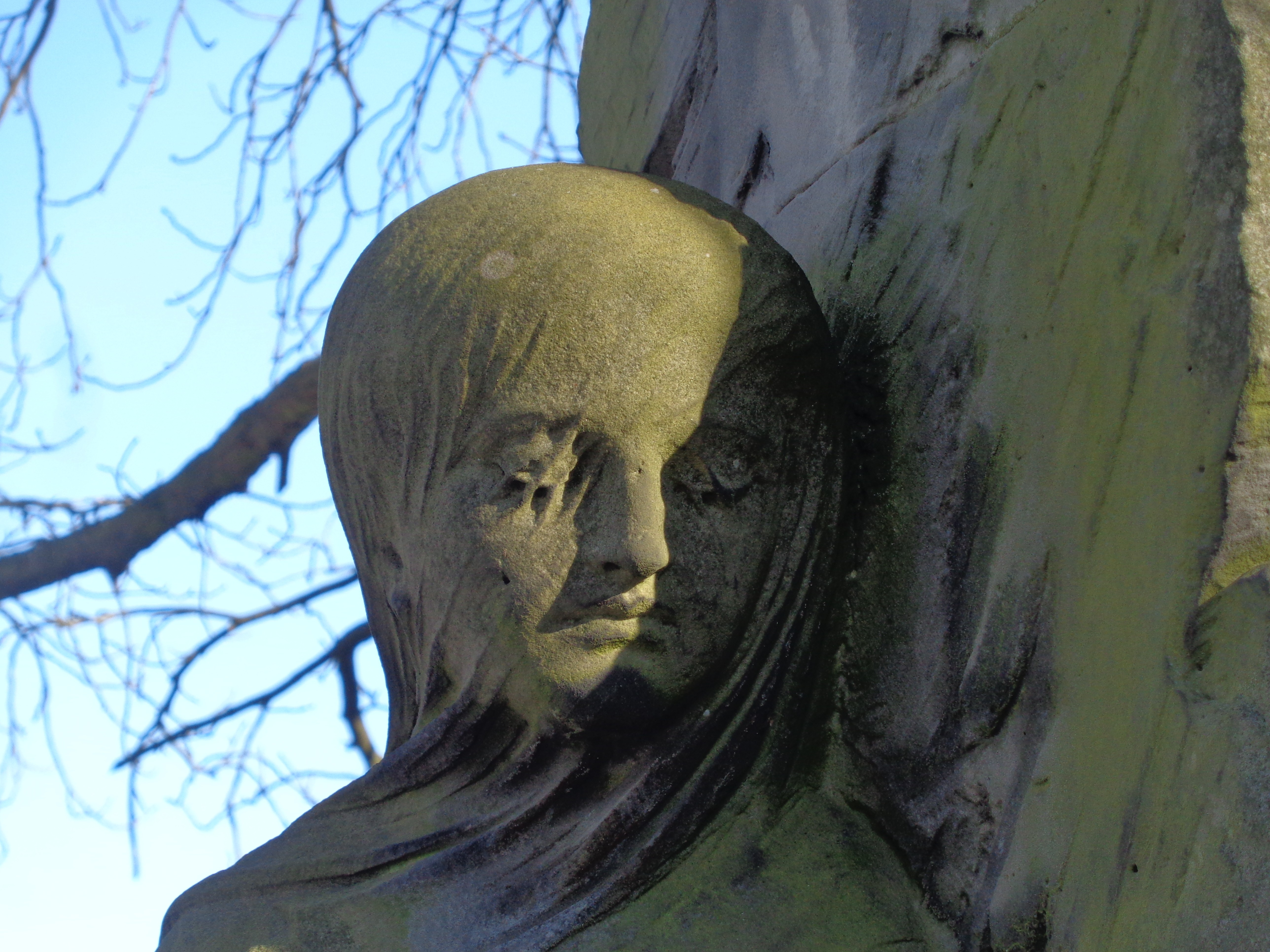 Detail from Ballaun family's grave on communal cemetery in Włocławek. Statue of woman.